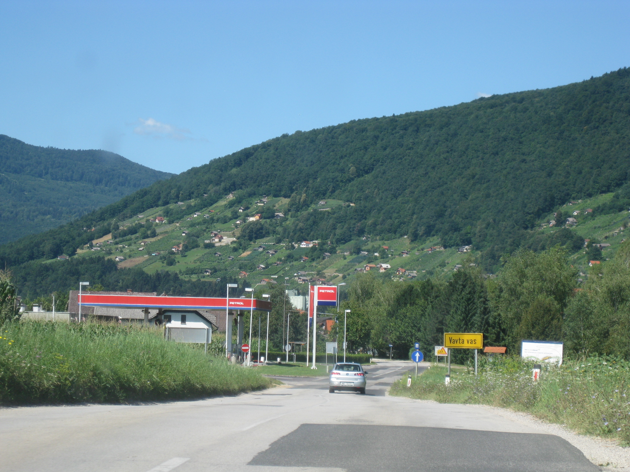 Vavta vas, village in Slovenia